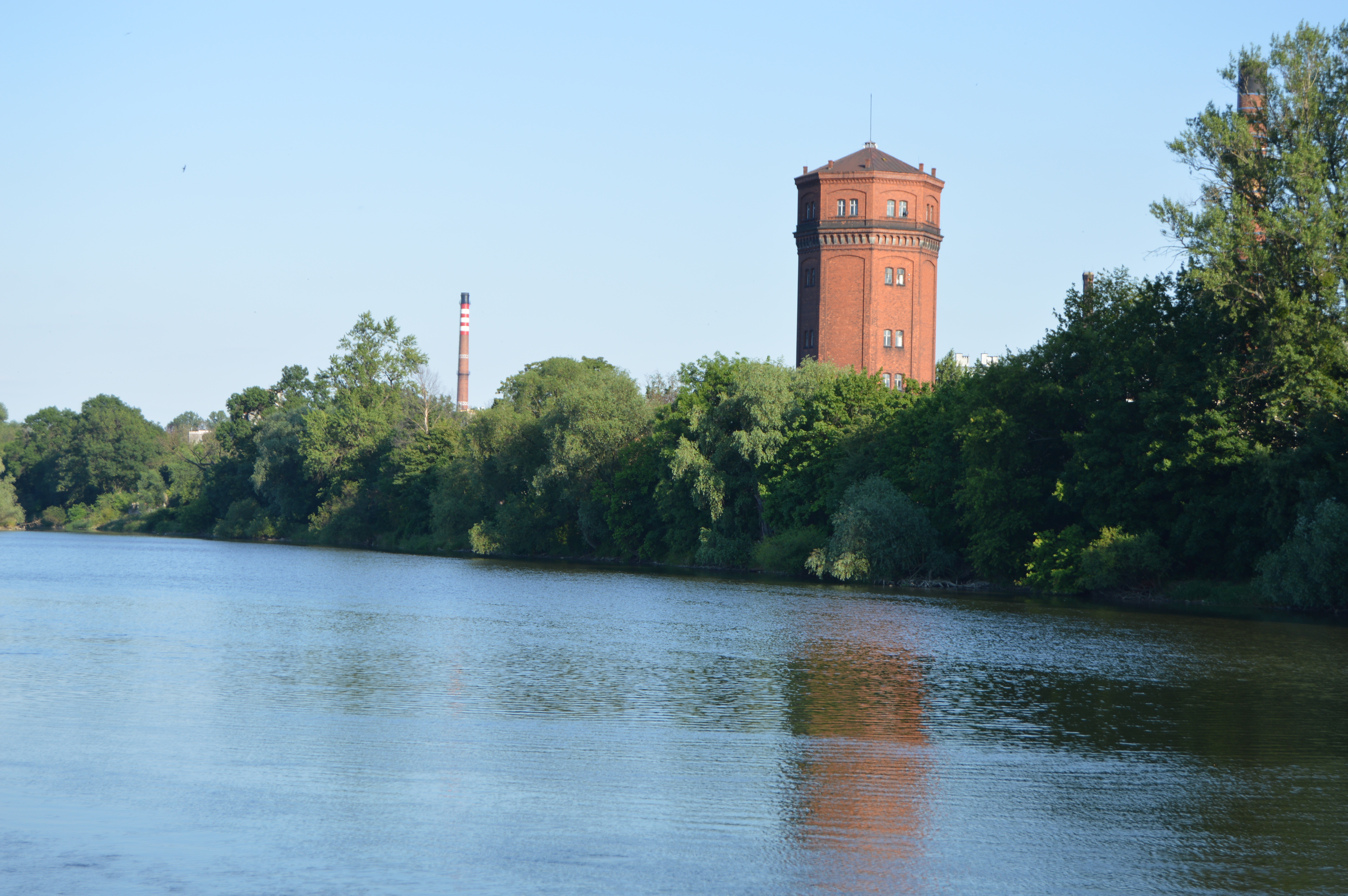 A view of the water tower in Breg reflecting on the River Odra (Oder), as seen from Jerzynowa Island, past the Kępa Młyńska.